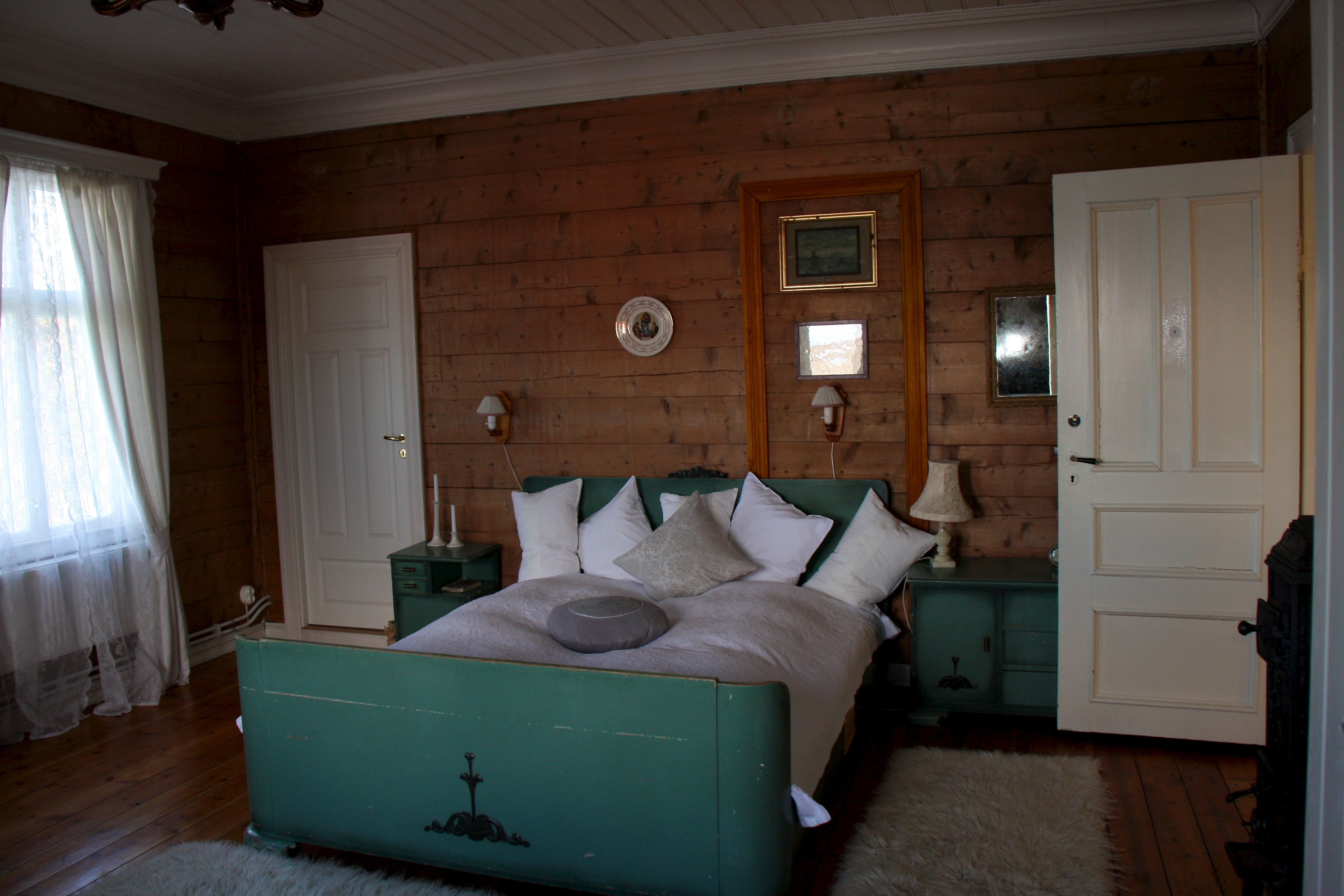 Gulen municipality, Norway.